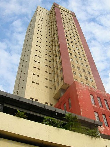 Uploaded to Wiki by user:nikkul Uploaded on August 9, 2005 by Flickr user: Anitabora